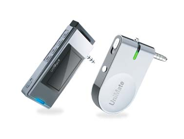 Tokens with Audio Jack Port